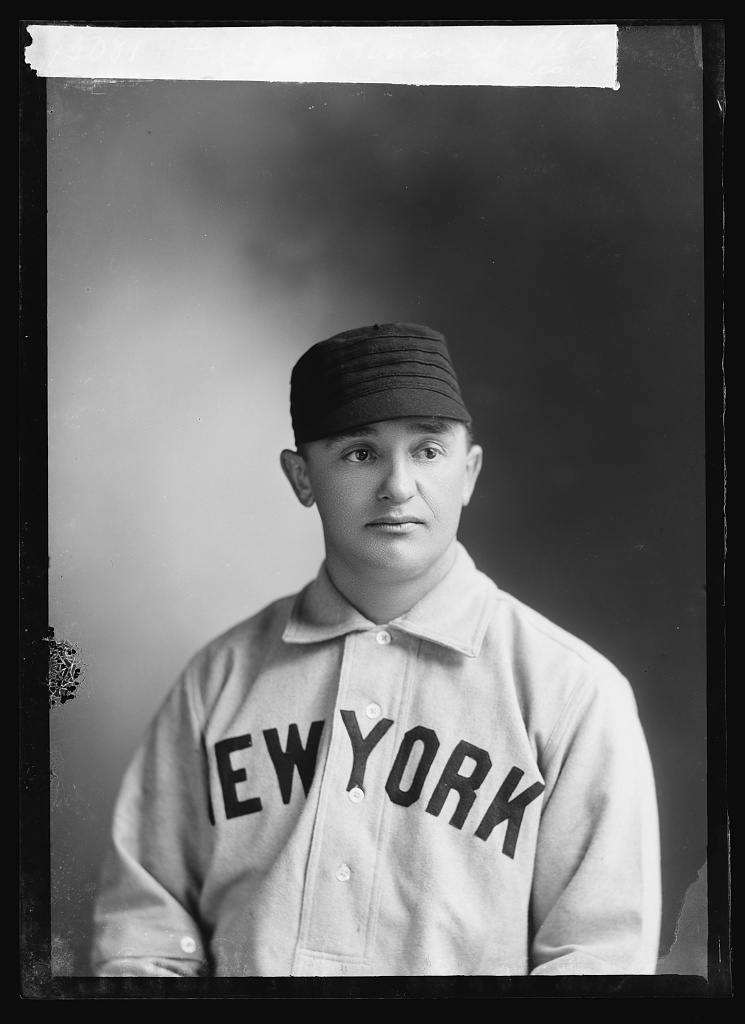 Fred Hartman in NY Giants uniform photographed by C. M. Bell Studio